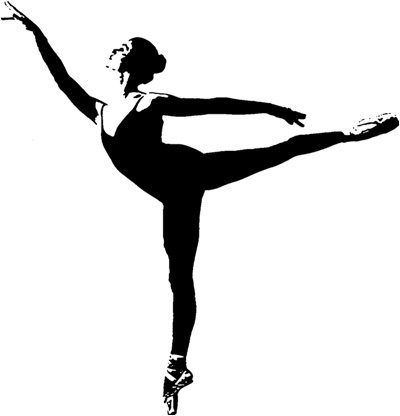 Arabesque - Image from "Bio of a Dancer"